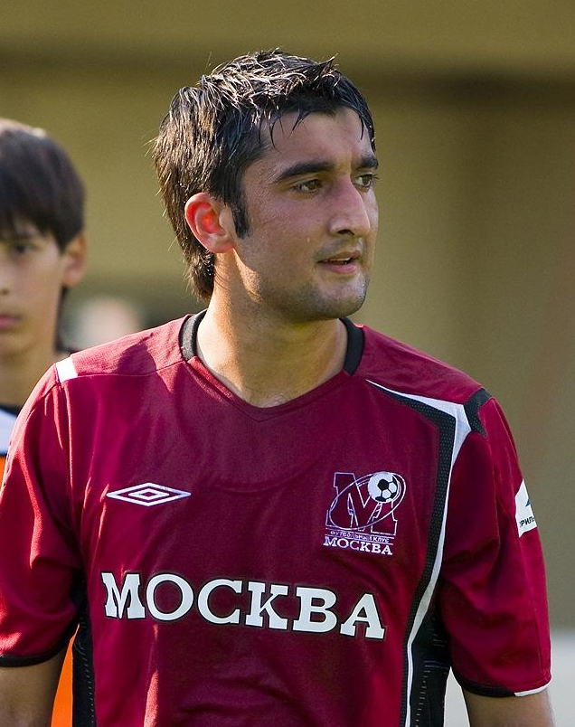 Aleksandr Samedov in action for FC Moscow